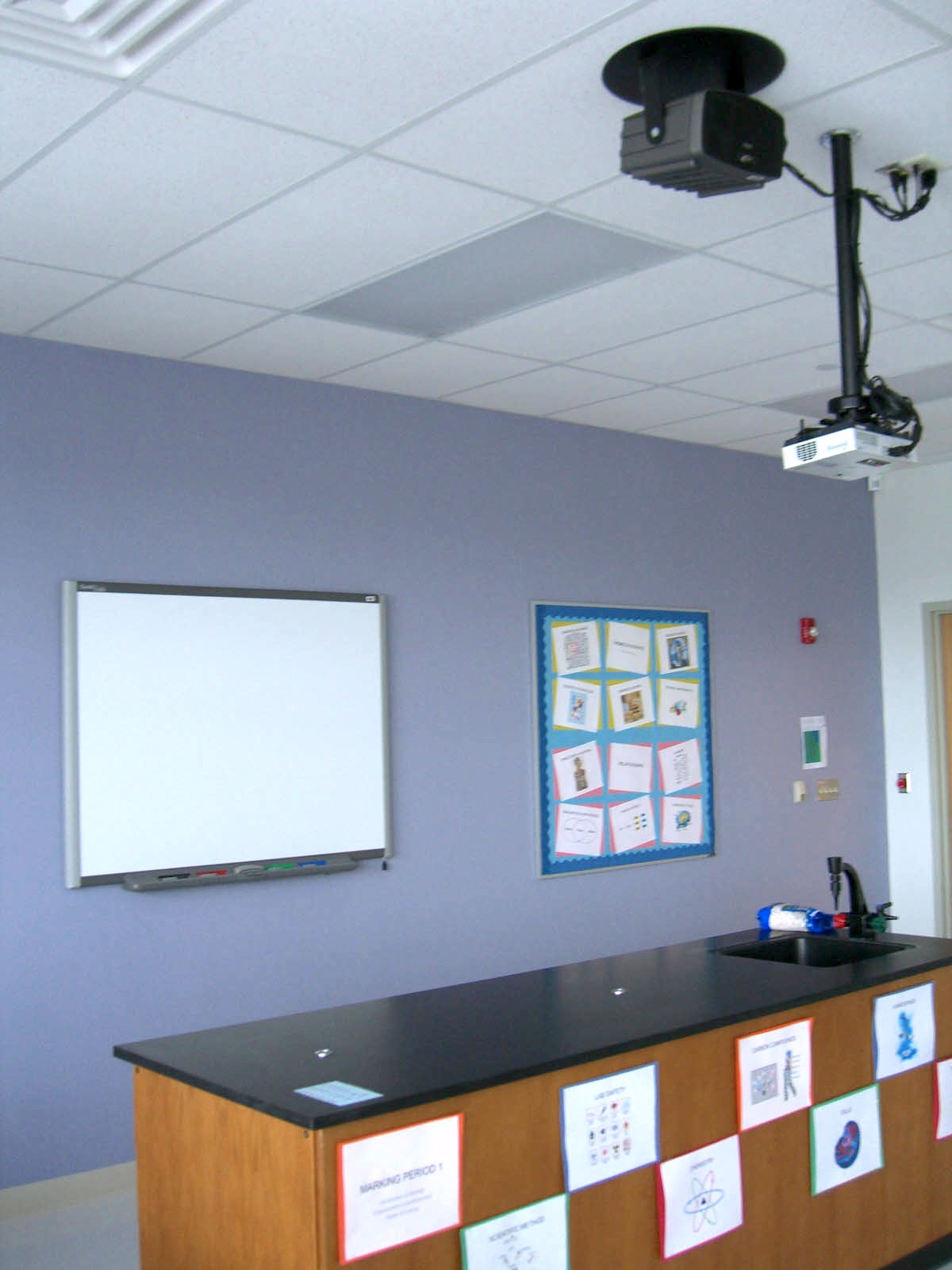 Fourth floor science classroom, known as "The Million Dollar Classroom", in Union City High School in Union City, New Jersey. Like all classrooms in the school, it features a ceiling-mounted projector that allows the teacher to project material from a laptop computer onto the board when teaching. The board itself is a computer smart board, on which the teacher can write and erase without chalk, though not all the classrooms in the school are equipped with these. Photographed by Luigi Novi. This photo is not in the public domain. It may, however, be used, modified and published for any purpose, only if an easily visible credit to the photographer is placed near the photo in each instance in which it is used. (See licensing information below.) Publication of this photo without this proper attribution constitutes copyright infringement. For more information on my photos, you can contact me here. Many thanks to Mayor Brian P. Stack, Superintendent of Schools Stanley Sanger, and Director of Facilities Frank Acinapura for arranging my private tours of the school, and to Head of Security Joey Orefice for conducting them personally.